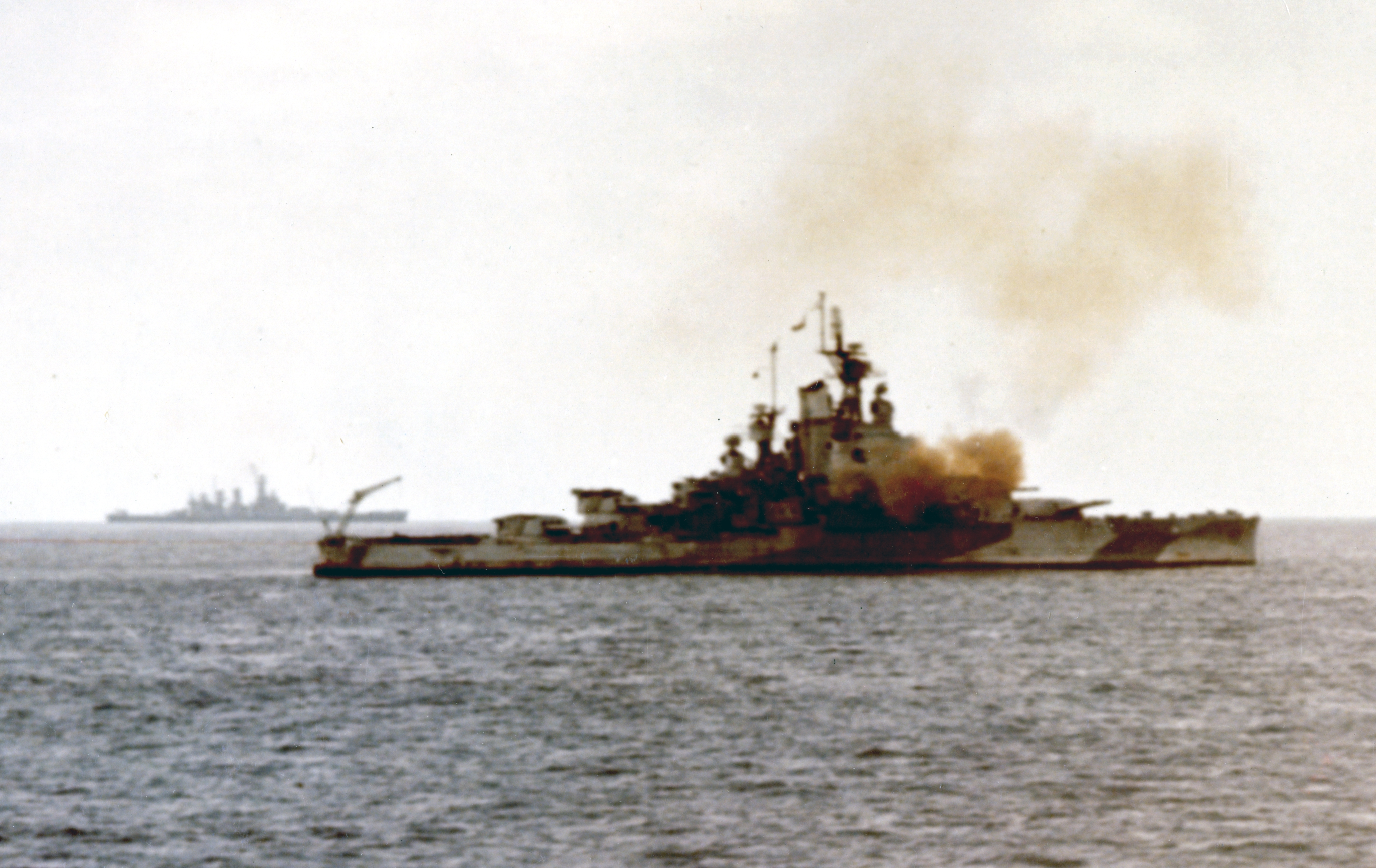 Iwo Jima Operation, 1945: the U.S. Navy battleship USS Nevada (BB-36) bombarding Iwo Jima, 19 February 1945. A North Carolina class battleship (probably USS Washington, BB-56) is in the left distance.